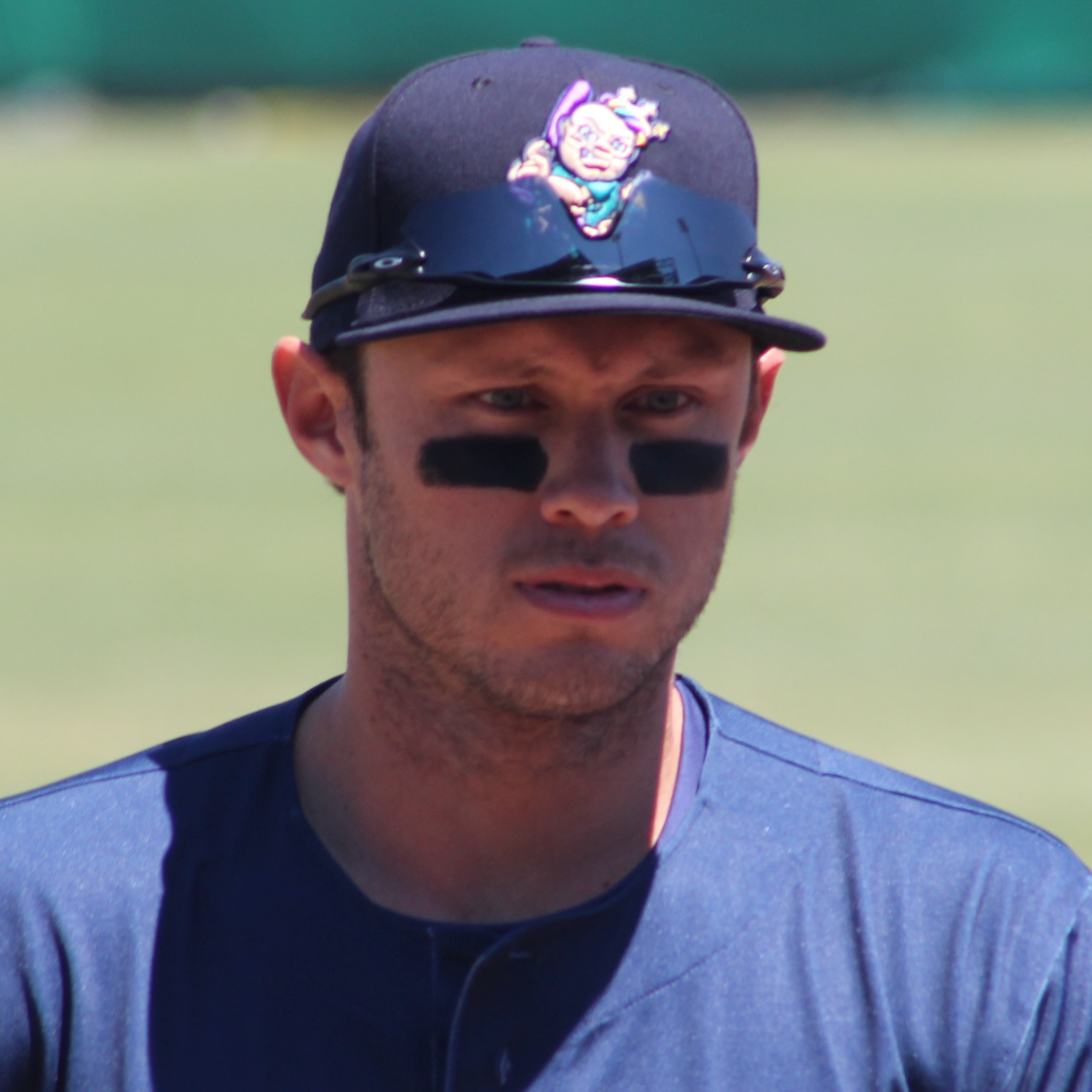 Professional baseball player Matt den Dekker during a minor-league game in New Orleans in 2017